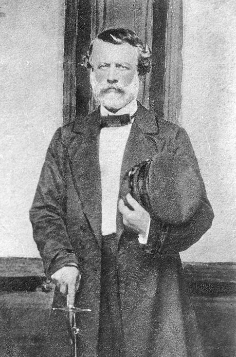 Depicted person: Peter U. Murphey – United States Navy officer